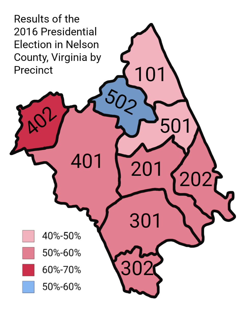 Map showing the results of the 2016 presidential election in Nelson County Virginia by Precinct.